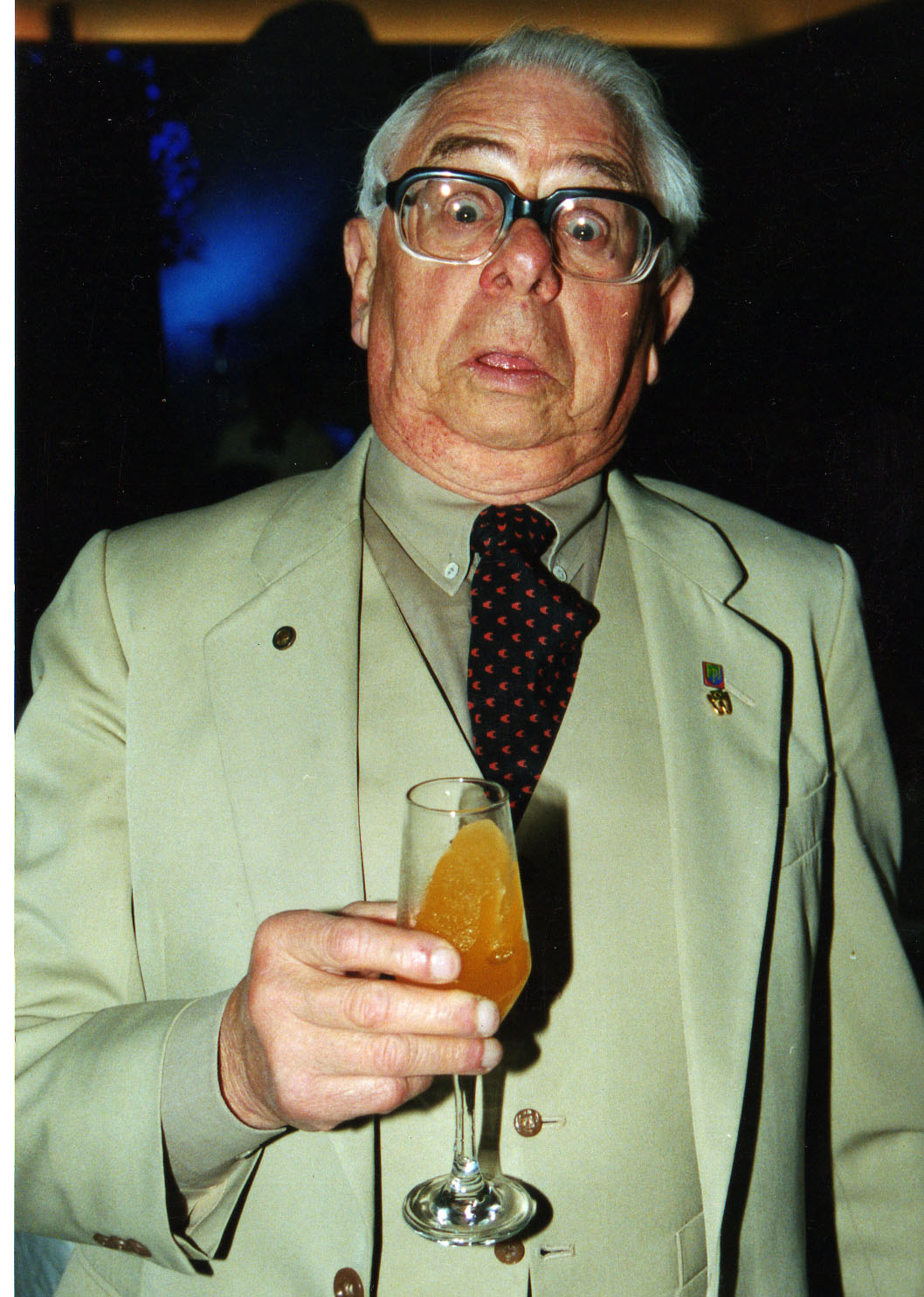 Brazilian comedian José Vasconcelos.